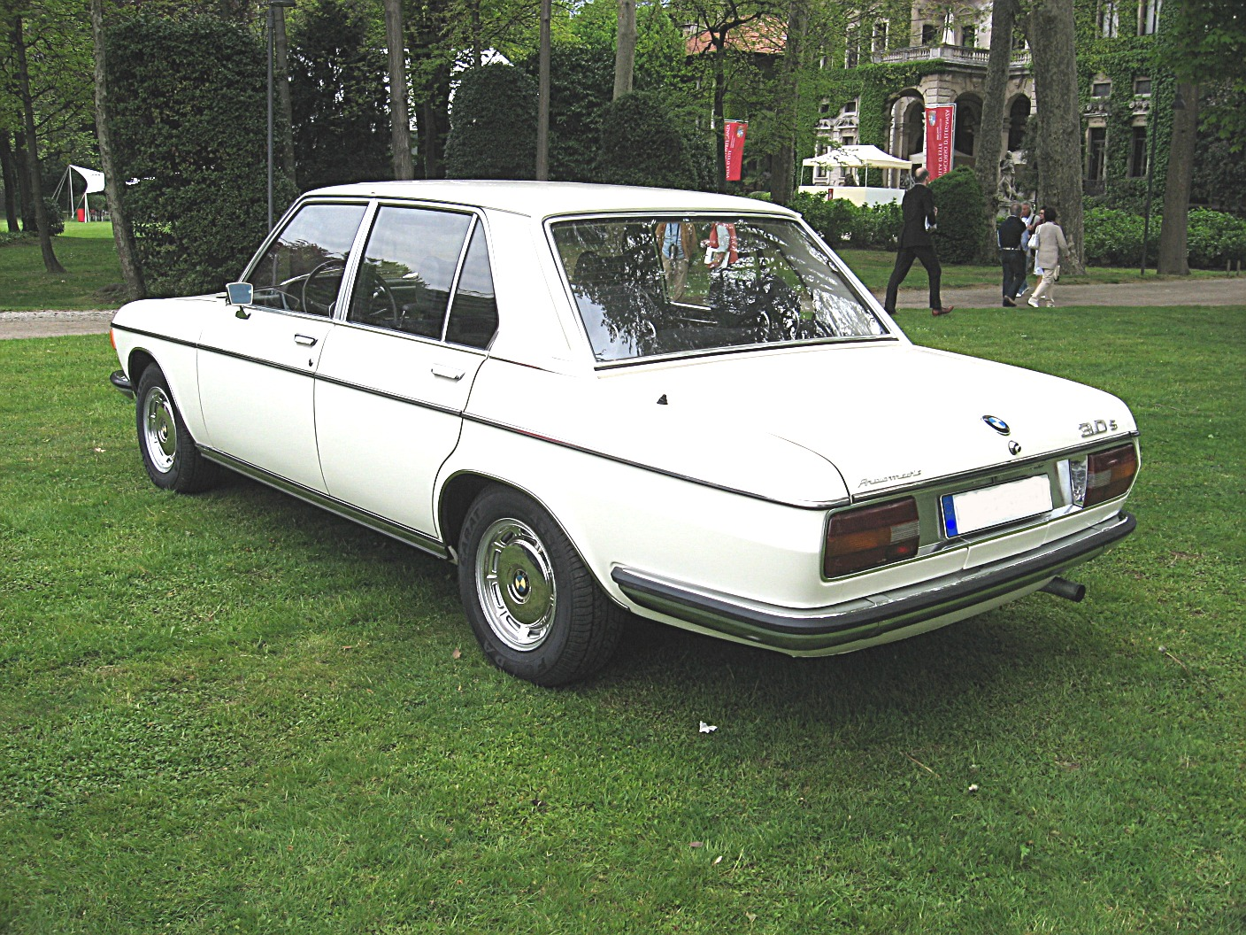 Subject:BMW 3.0 S (E3 model) Date:April 27th, 2008 Event:Concorso d’Eleganza”Villa d’Este” 2008 Place/Country: Cernobbio (CO), Italy I release all rights in the public domain.